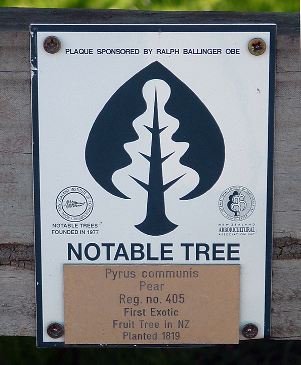 Sign below New Zealand's oldest fruit tree, near the Stone Store at Kerikeri